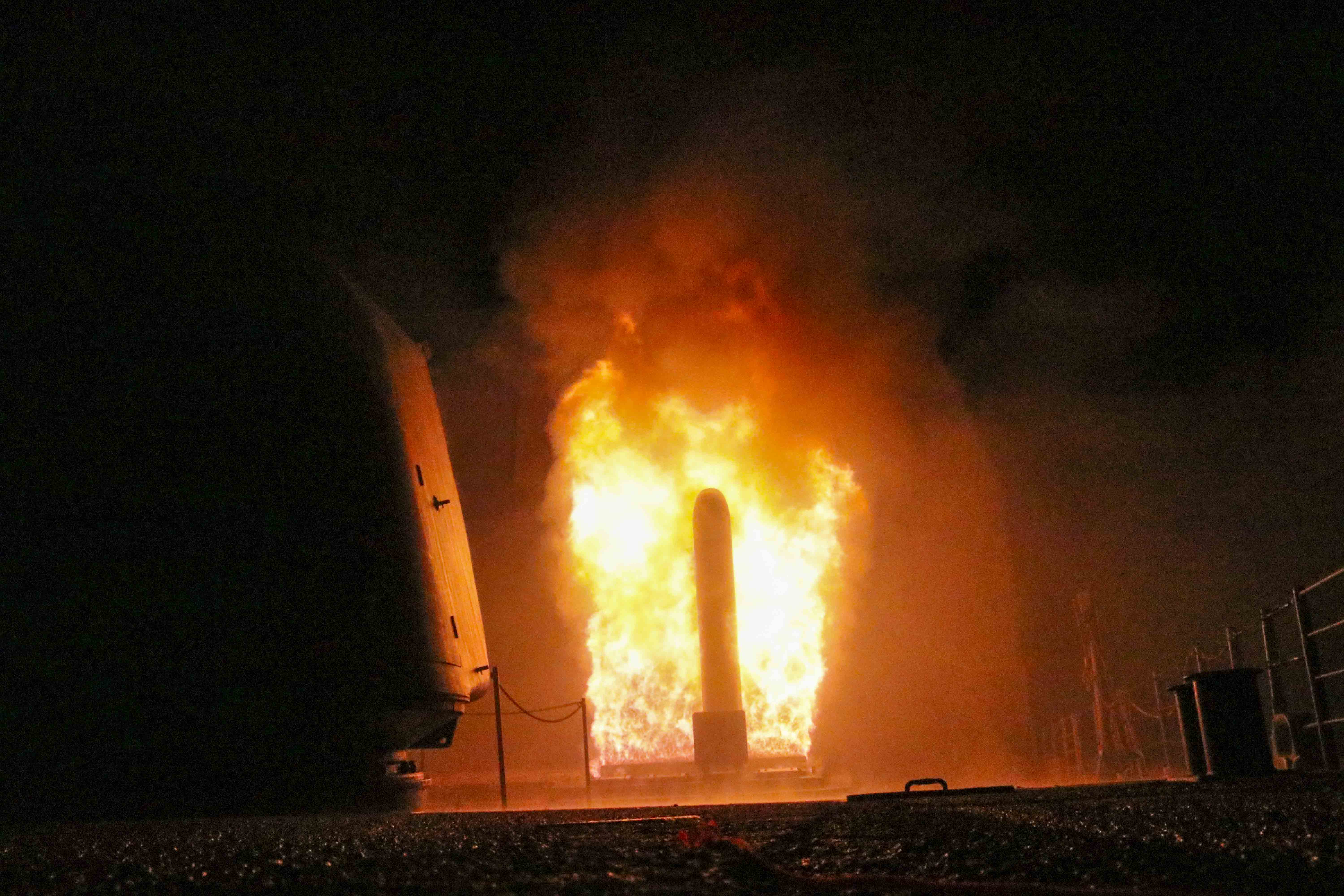 180414-N-DO281-1269 U.S. FIFTH FLEET AREA OF OPERATIONS (April 13, 2018) – The guided-missile cruiser USS Monterey (CG 61) fires a Tomahawk land attack missile April 13. Monterey is deployed to the U.S. 5th Fleet area of operations in support of maritime security operations to reassure allies and partners and preserve the freedom of navigation and the free flow of commerce in the region. (U.S. Navy photo by Lt. j.g Matthew Daniels)